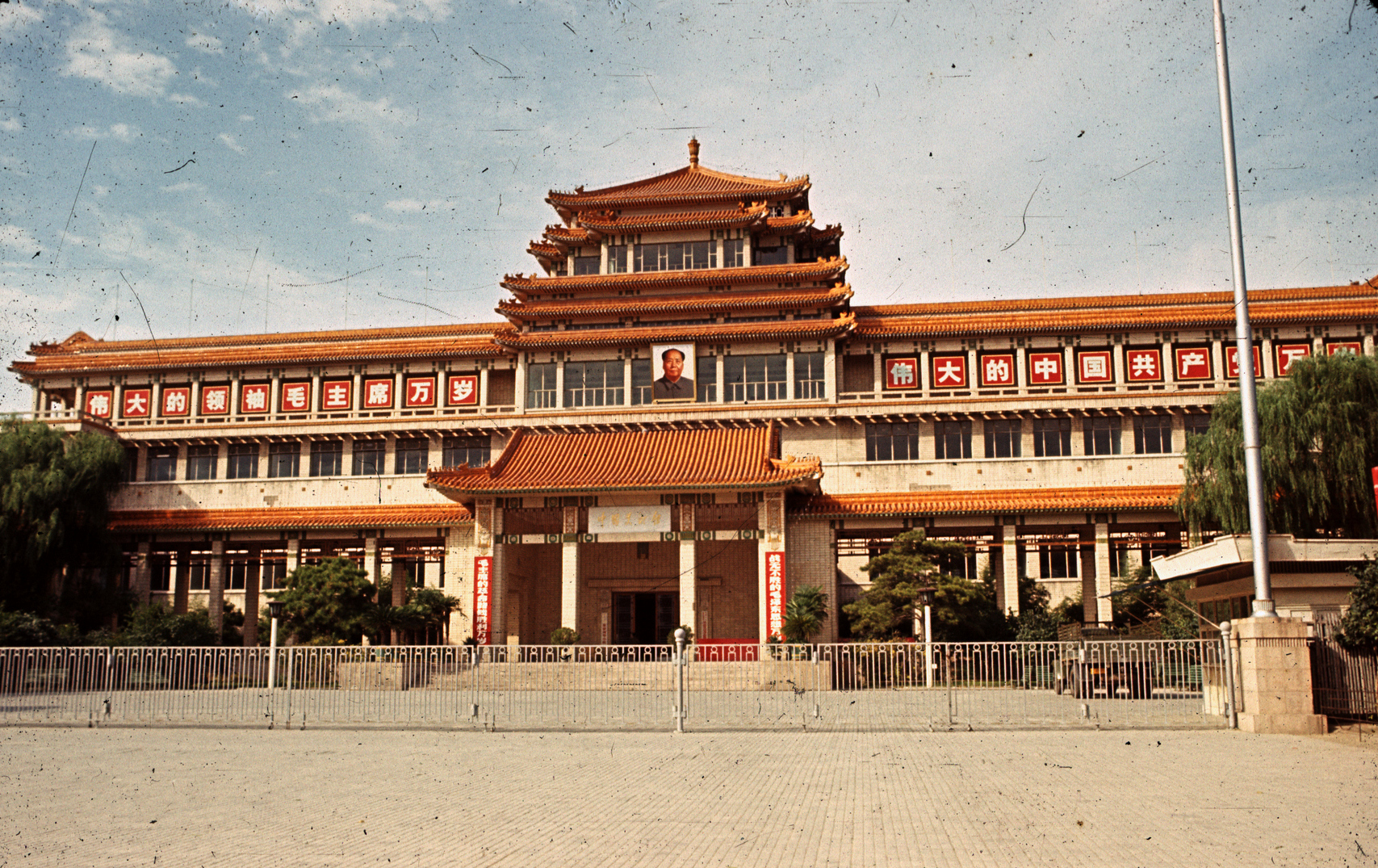 National Art Museum of China in 1965